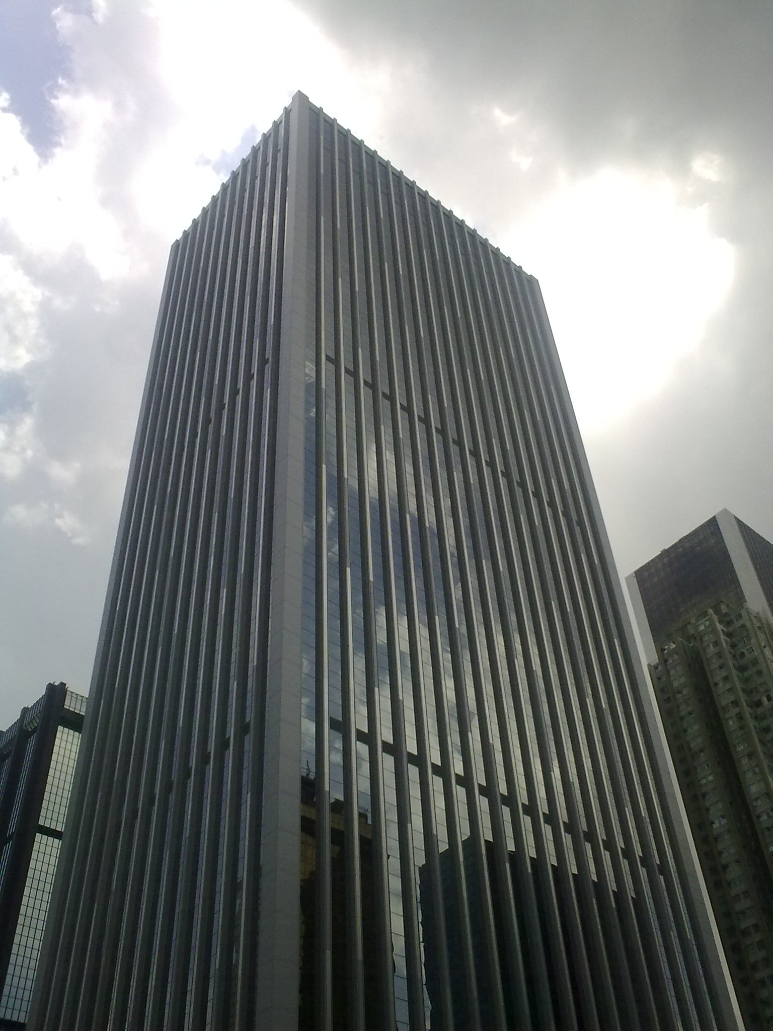 China_Resources_Building(July 2012)